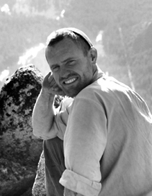 A photo of Nobel Prize-winning physicist and mountaineer Henry Kendall taken on top of Lower Brother in Yosemite Valley.